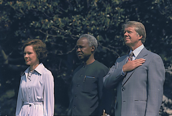 Rosalynn Carter, President Julius Nyerere of Tanzania and Jimmy Carter 4 August 1977